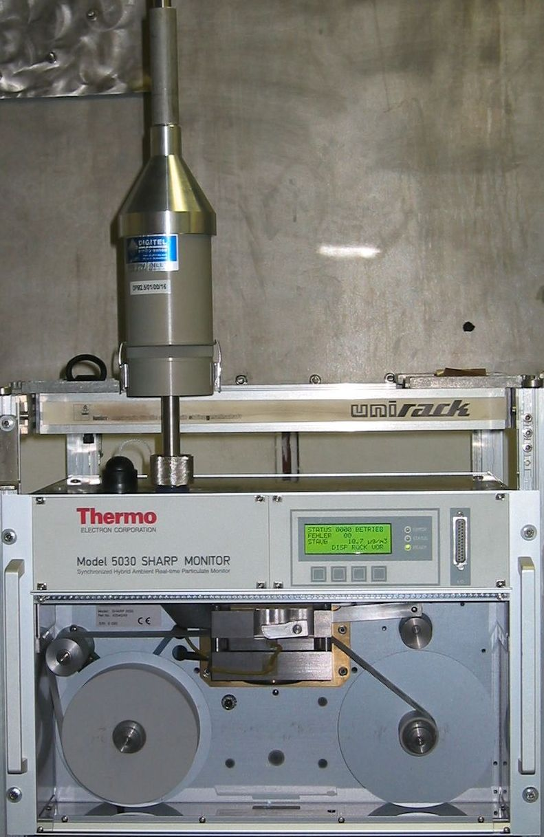 A combined nephelometer/beta attenuation monitor for particulate matter with a PM2.5 impactor attached on top